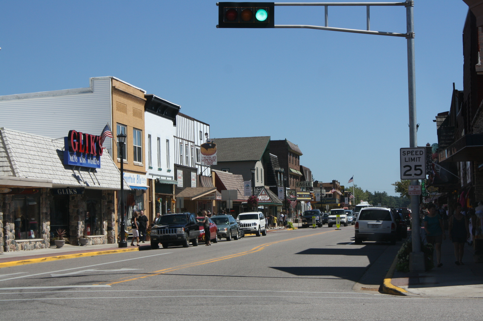 Looking east at downtown Eagle River, Wisconsin.